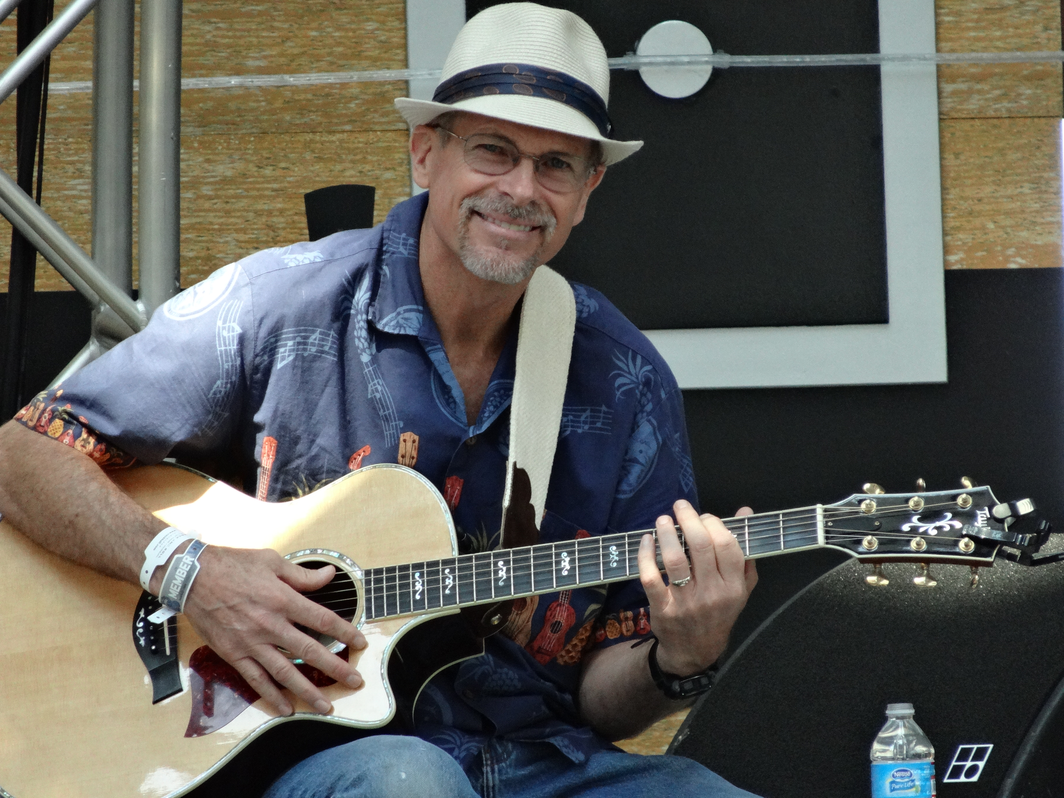 Bruce Robinson playing guitar on Rock & Roll Hall of Fame stage in Cleveland, Ohio on August 24, 2012.....Warming up before his solo performance use on my WIKI page, above the chart on right side of page title Bruce Robinson